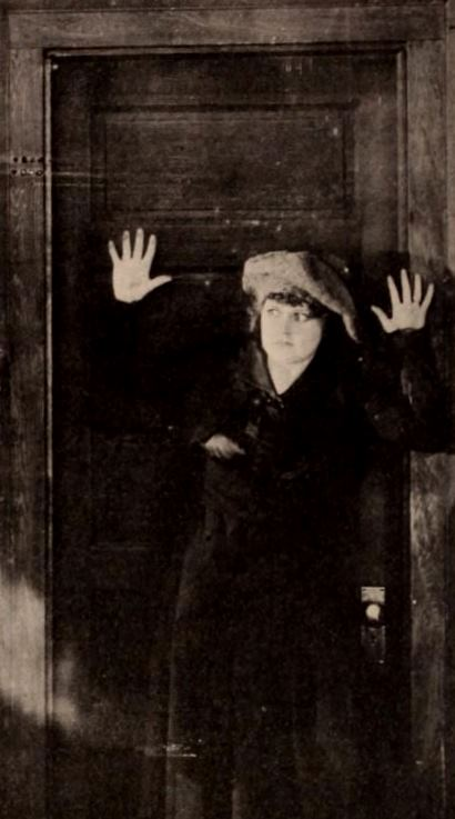 Still from an advertisement for the American drama film serial The $1,000,000 Reward (1920) with Lillian Walker, on page 88 of the March 27, 1920 Exhibitors Herald.